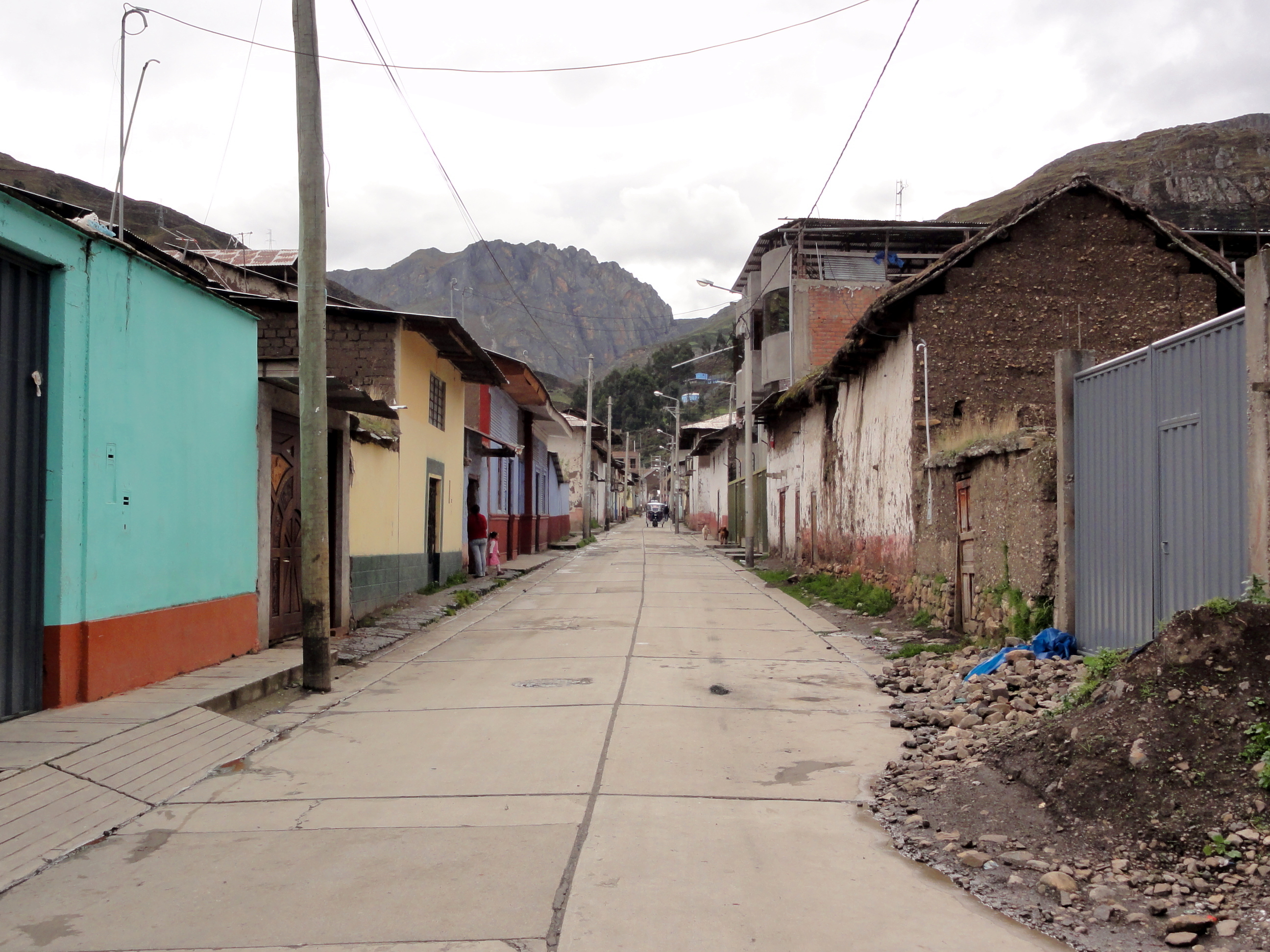 Leoncio Prado street